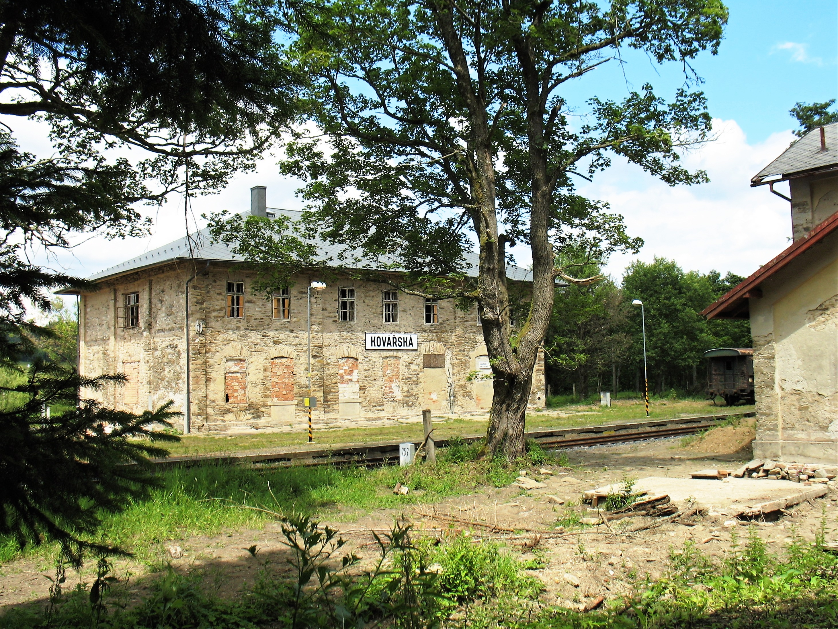 Kovářská train station, Chomutov District